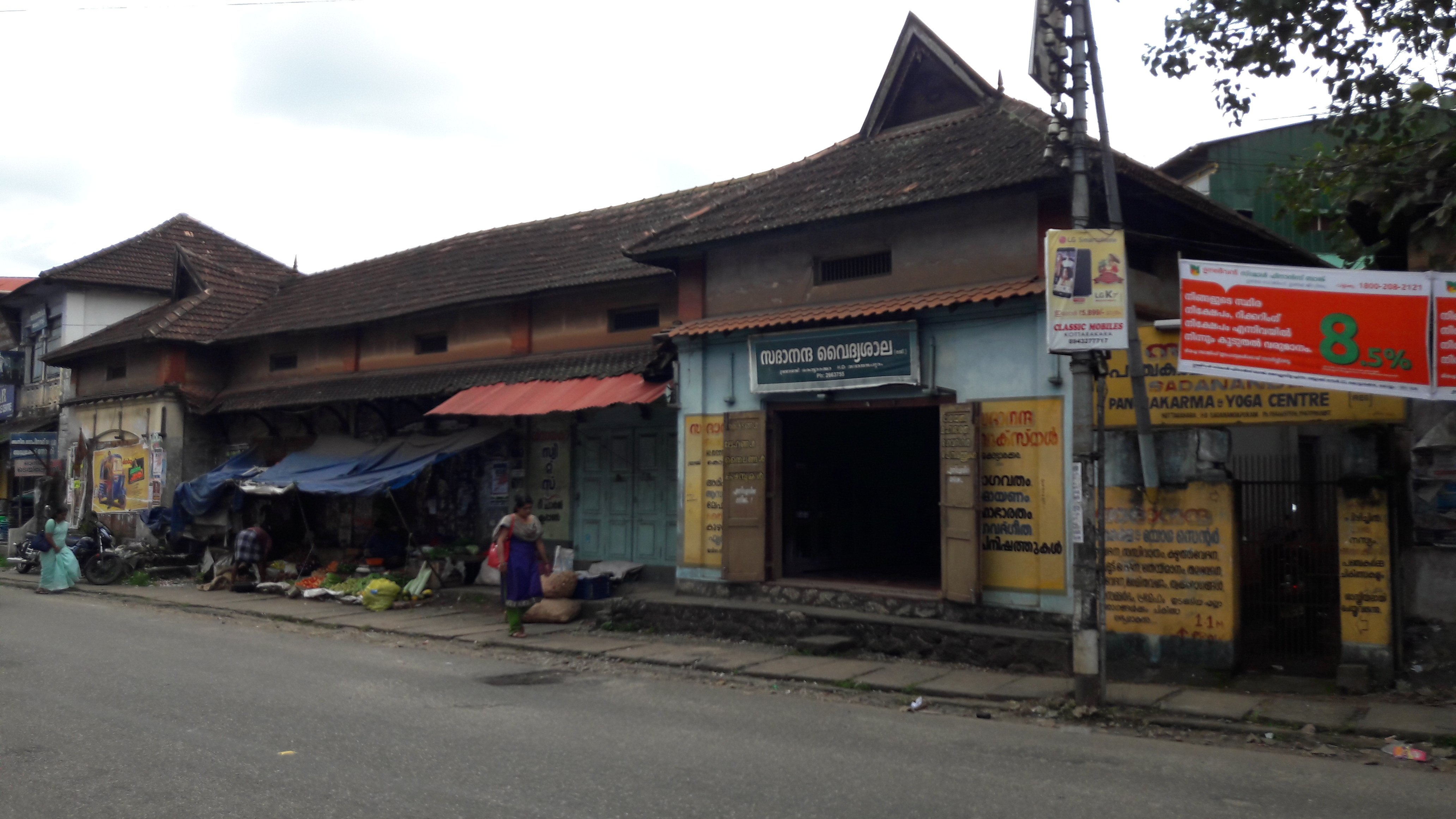 Sadananda vaidyasala, Ayurvedic medical shop at Kottarakkara